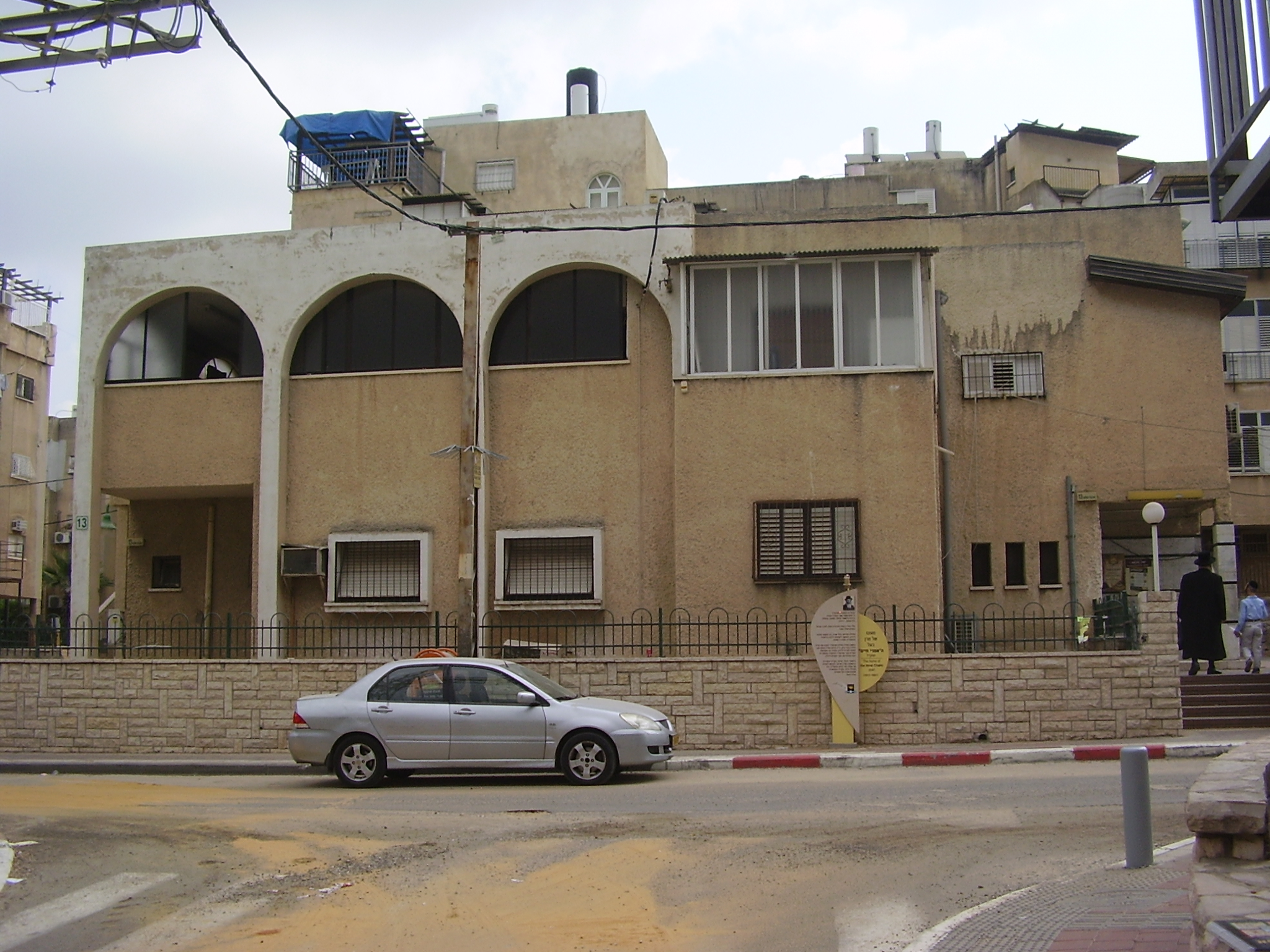 vizhnitz rabbi residence in bnei brak בית מגוריו של רבי חיים מאיר הגר ברחוב אהבת שלום 13 בבני ברק